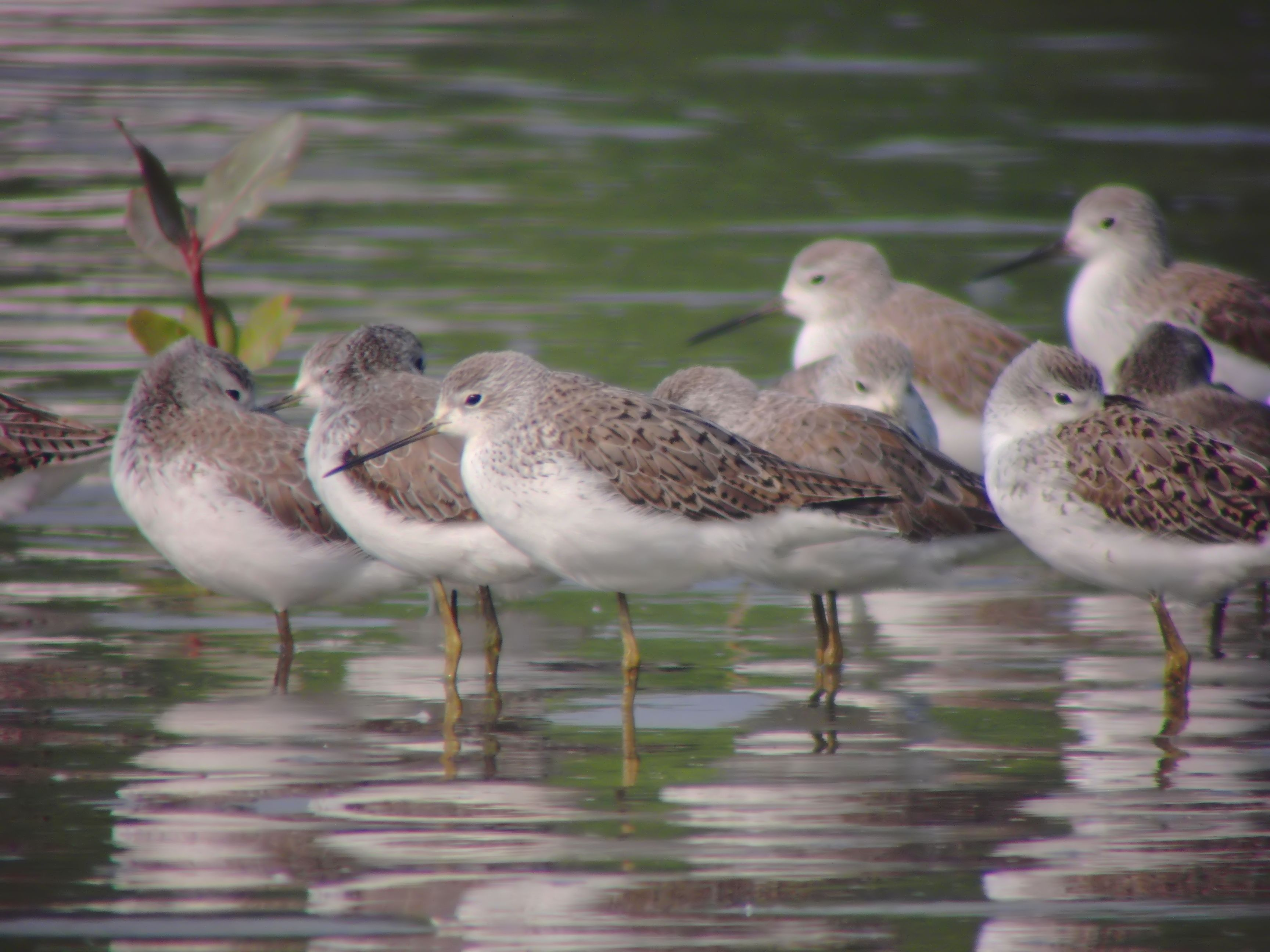 Saw at the wet lands .